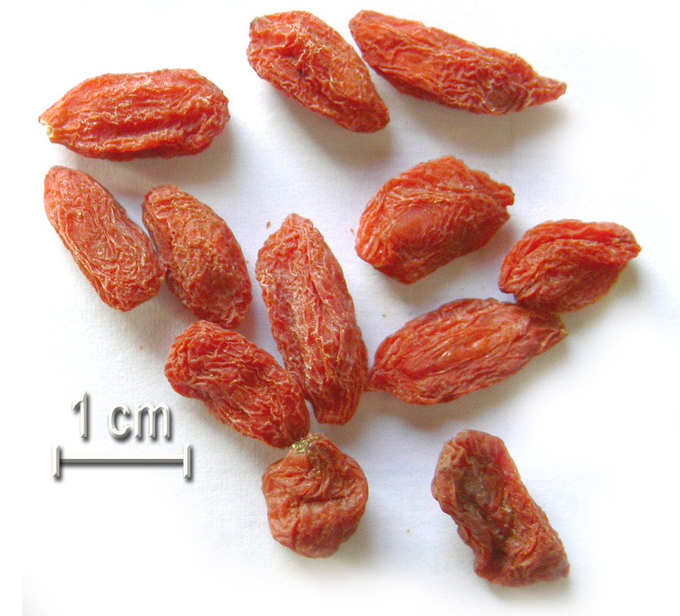 Wolfberry is the common name for the fruit of two very closely related species: Lycium barbarum